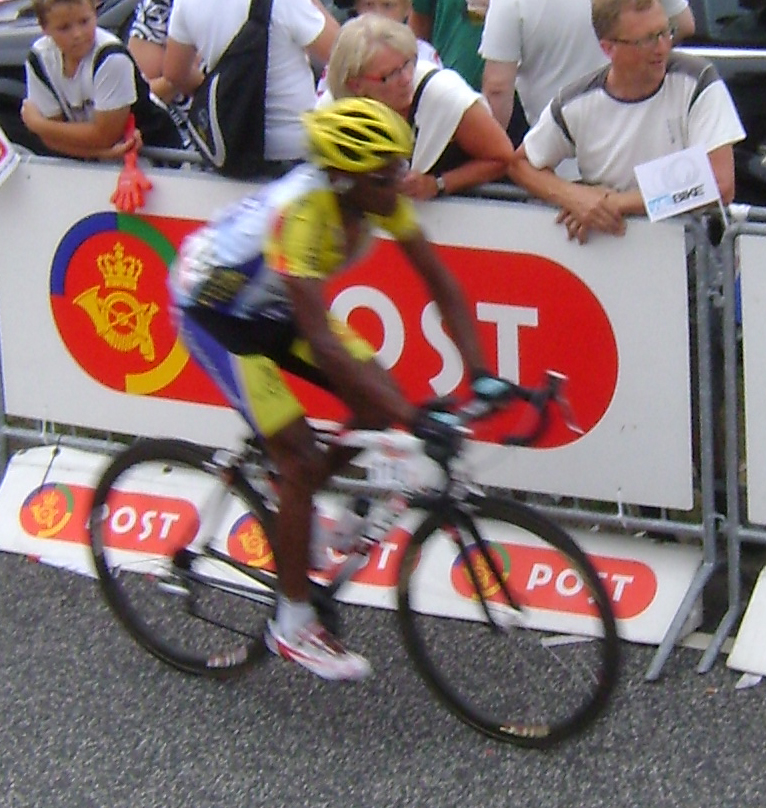 Luthando Kaka during the 3rd stage of Post Danmark Rundt 2008.